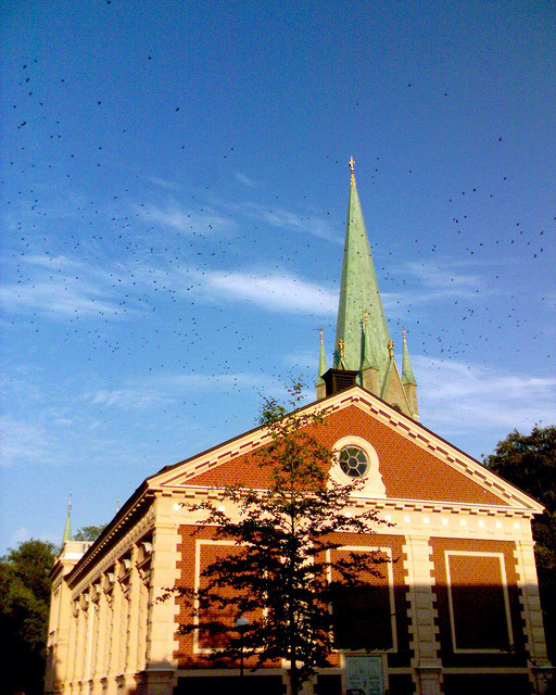 The Cathedral of Linköping.